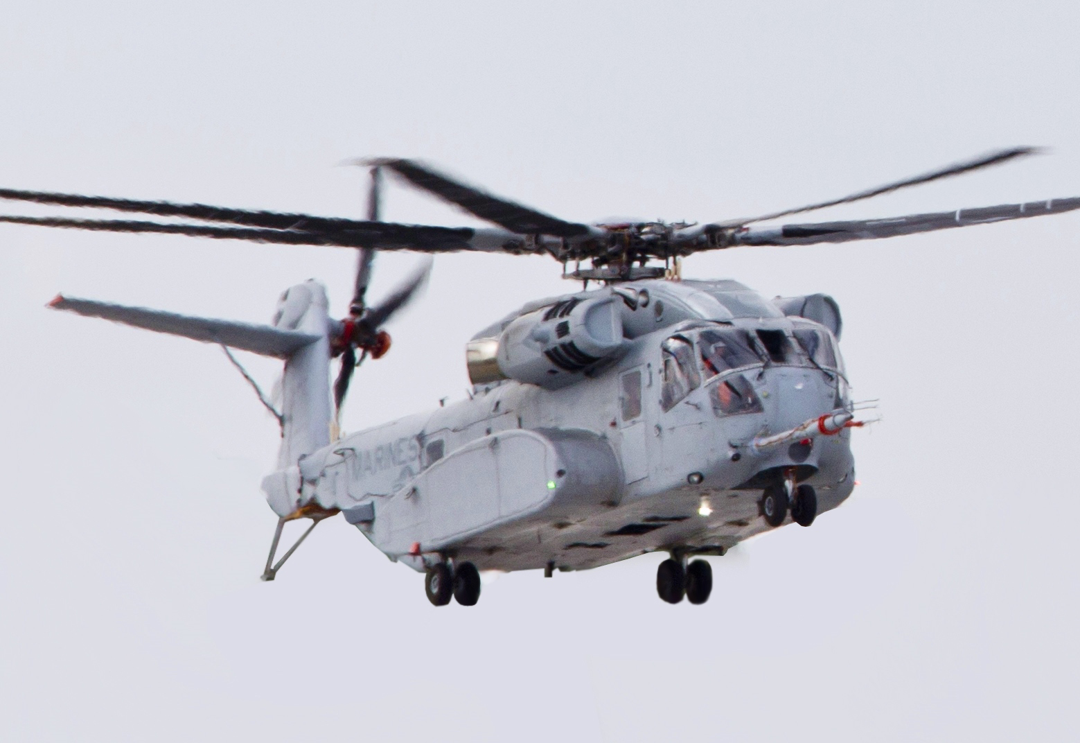 A CH-53K King Stallion aircraft, left, prepares to land at Sikorsky Aircraft Corporation, Jupiter, Fla., March 8, 2016. The CH-53K will replace the CH-53E Super Stallion aircraft, currently used by the Marine Corps. (U.S. Marine Corps photo by Staff Sgt. Gabriela Garcia/Released)